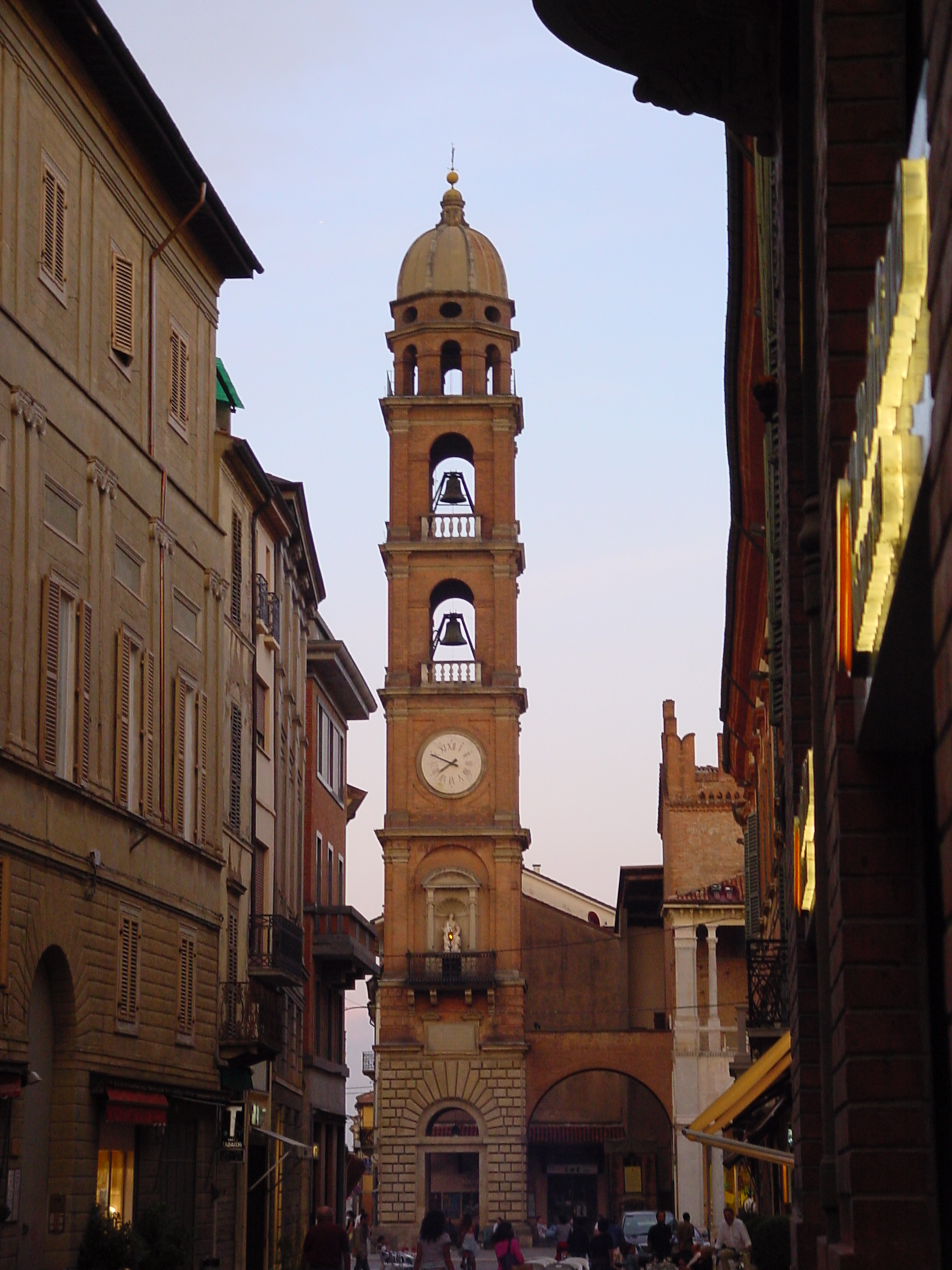 Own work - separate belltower in the heart of Faenza (Italy). Use only with contribution to 'Axel Hammer'.